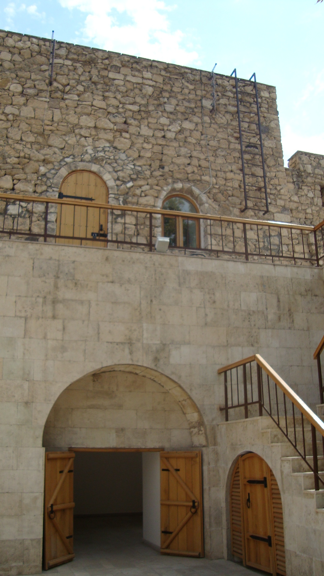 Interior view of the Tigranakert castle also known as Shahbulag castle. Askeran district, Republic of Mountainous Karabakh (Artsakh) / Agdam district, Azerbaijan